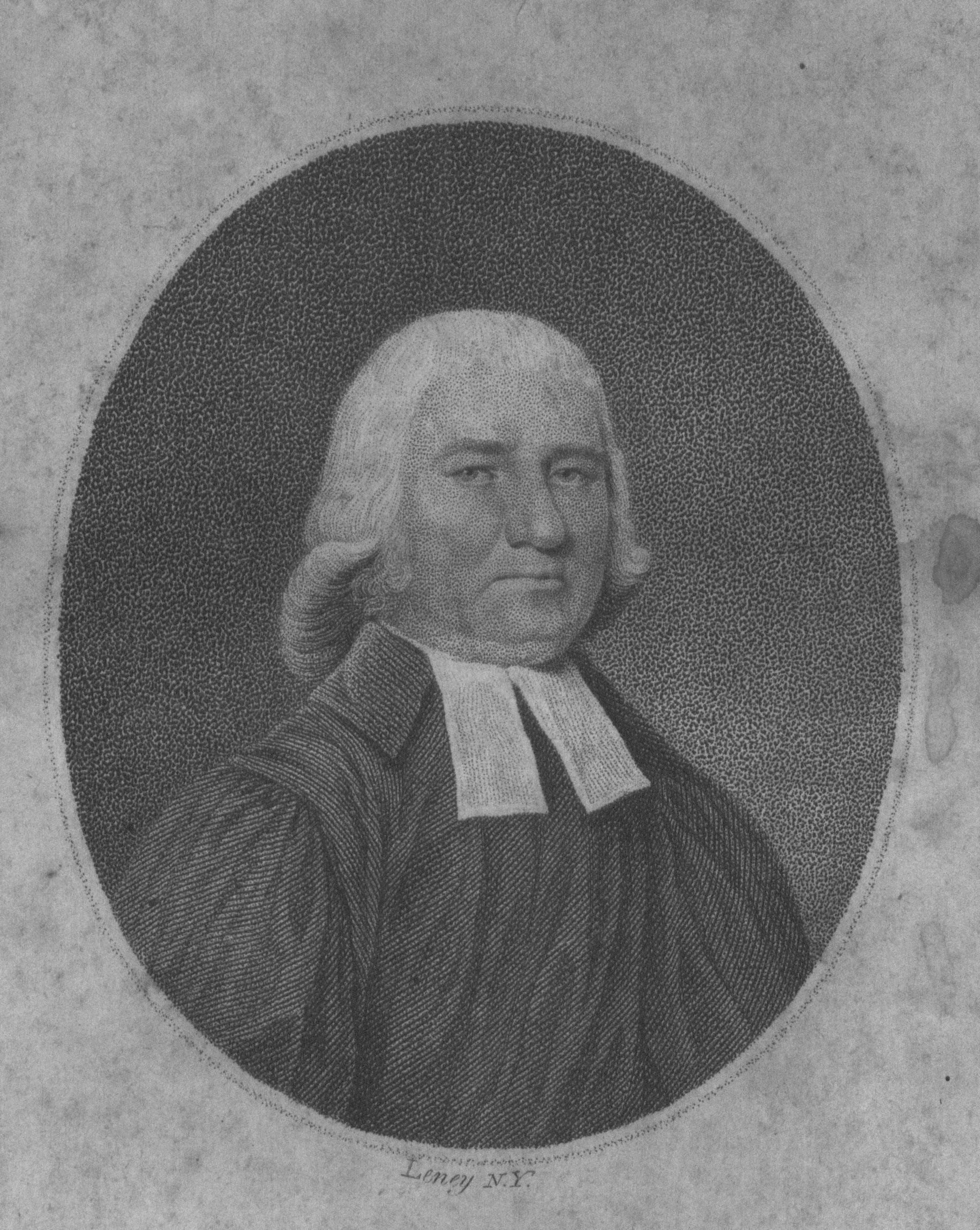 Alexander MacWhorter (July 26, 1734-July 20, 1807), stipple engraving from Sermon Preached …at the Funeral of the Rev. Alexander Macwhorter (1807)